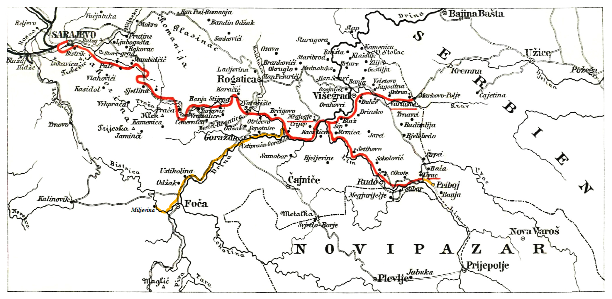 Map of the Bosnian Eastern Railway, 1908 - Updated